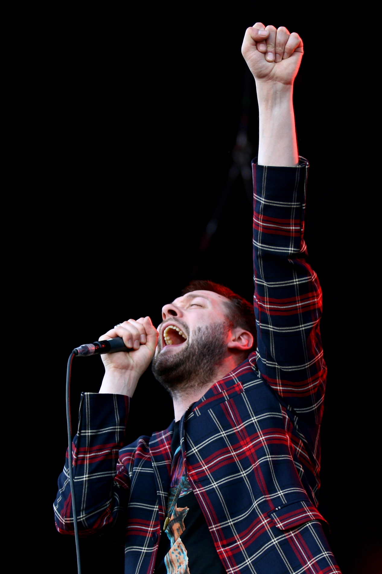 Tom Meighan, singer of Kasabian, on the Centerstage of Rock im Park Festival 2014. Festivalsommer This photo was created with the support of donations to Wikimedia Deutschland in the context of the CPB project "Festival Summer".